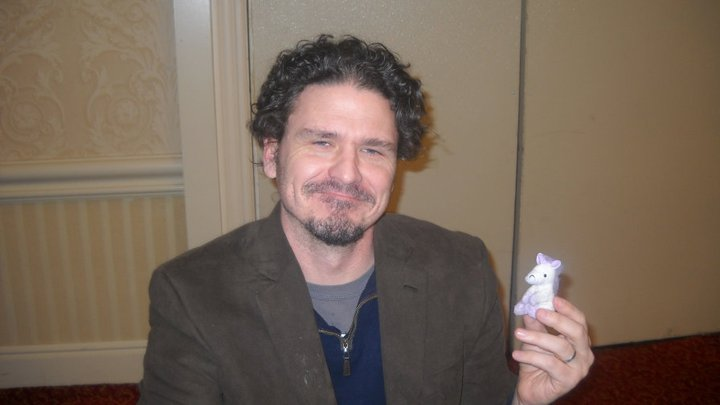 Dave Eggers was a keynote speaker at the Sigma Tau Delta English Honor Society conference in Pittsburgh, PA. He was gracious enough to pose with our unicorn Gulliver during his book signing.